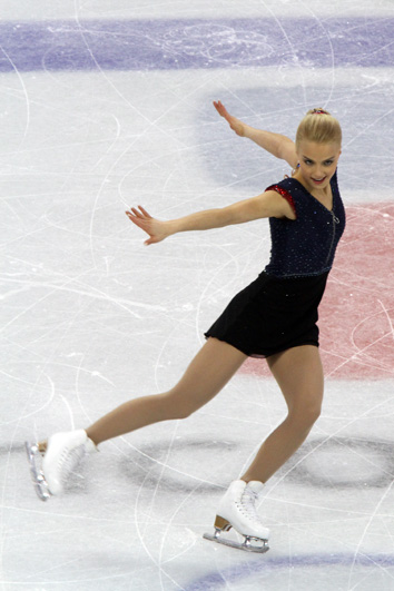 Kiira Korpi at the 2010 Winter Olympics.